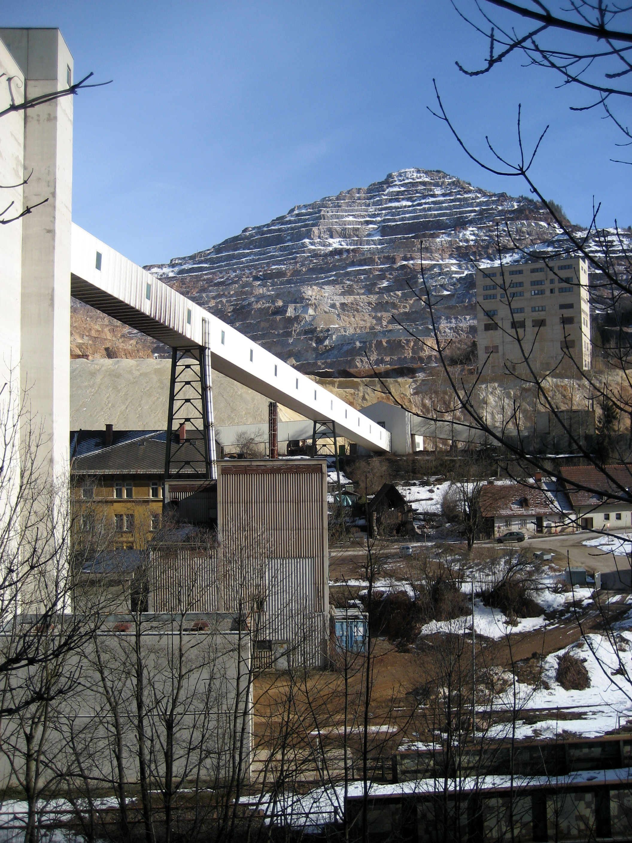 Eisenerz, a city in Styria, Austria, Europe: Erzberg